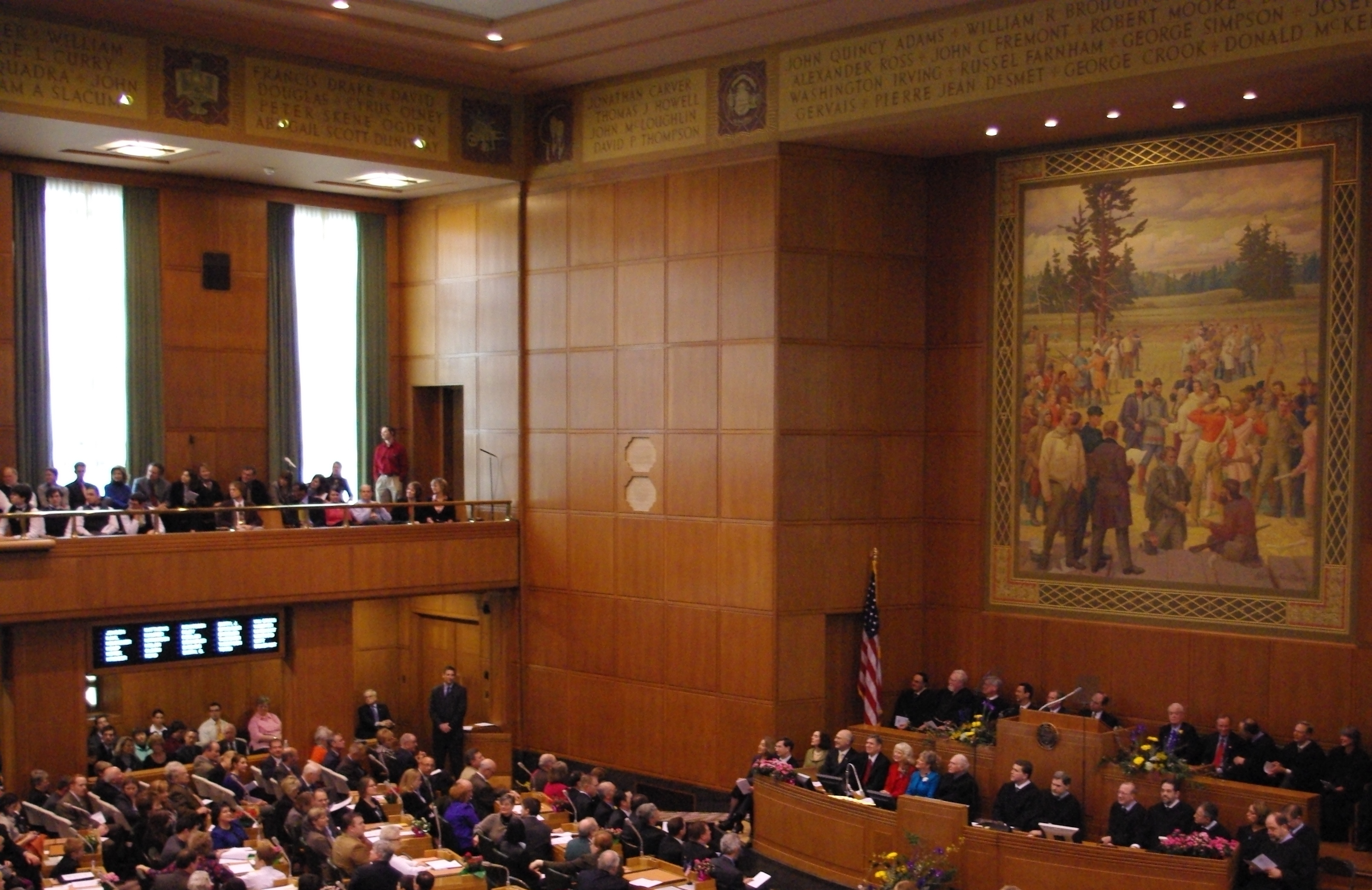 Opening of 2009 Oregon legislature